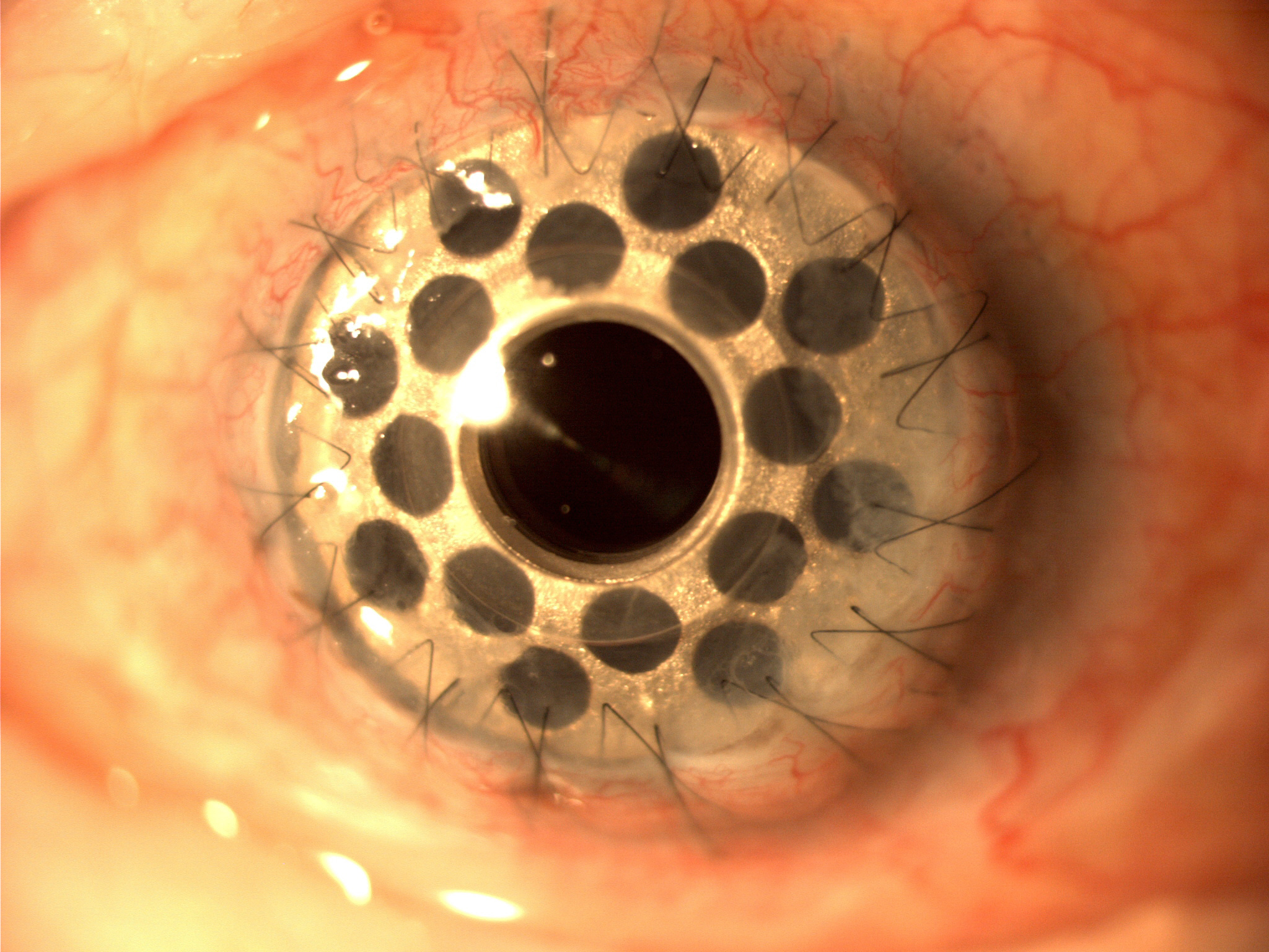 This is an artificial cornea, made by the union of a donor cornea and a prosthesis, which name is Boston Keratoprosthesis type 1. This is implanted when penetrating keratoplasty is not possible to perform